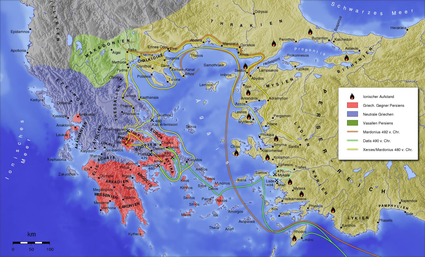 Map showing the Persian Wars of the 5th Cent BCE, with the battle of Mykale highlighted.